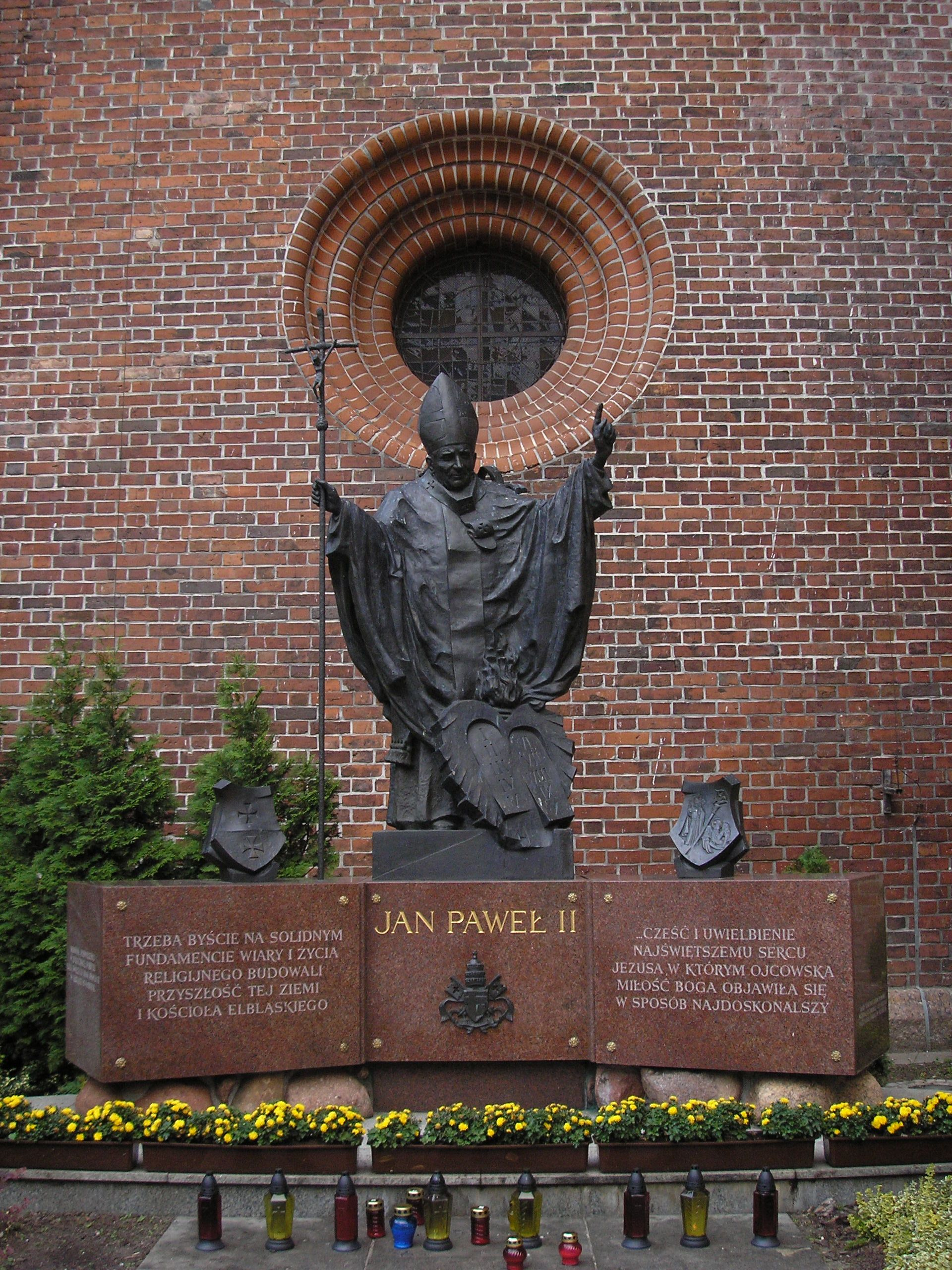 Monument of the Pope John Paul II in Elbląg.